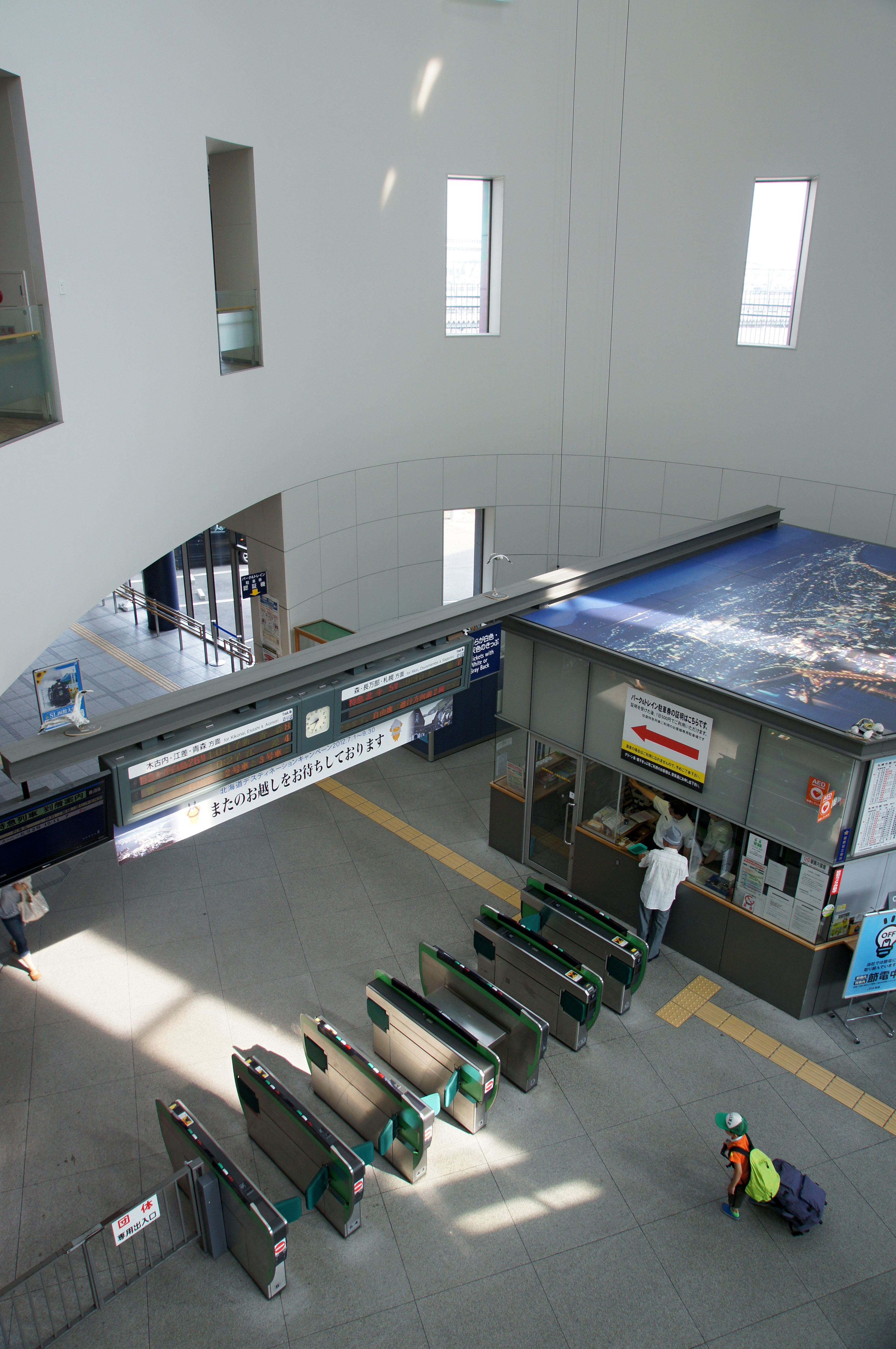 Hakodate Station in Hakodate, Hokkaido prefecture, Japan